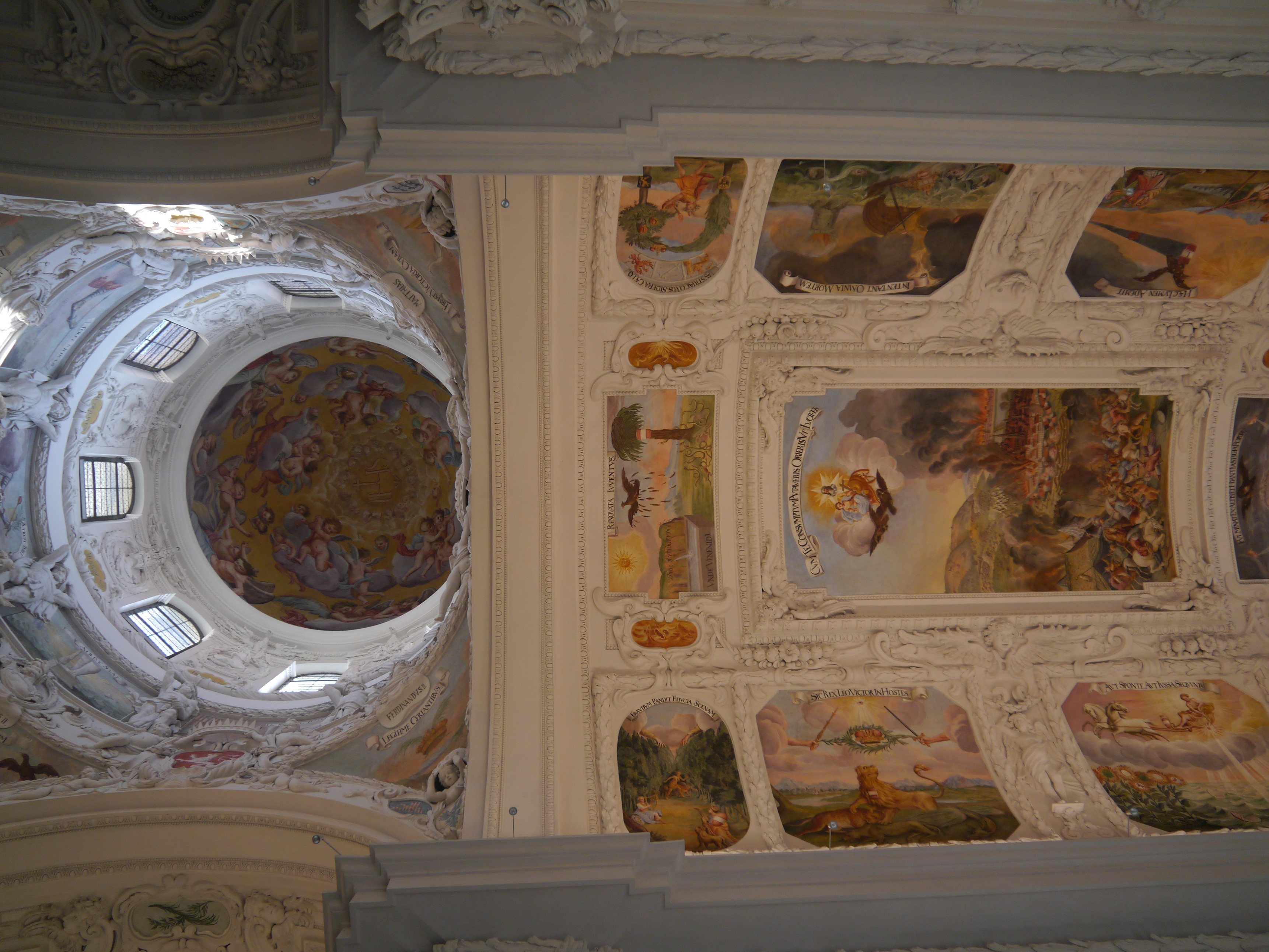 Dome & vault of St. Catherine, Graz